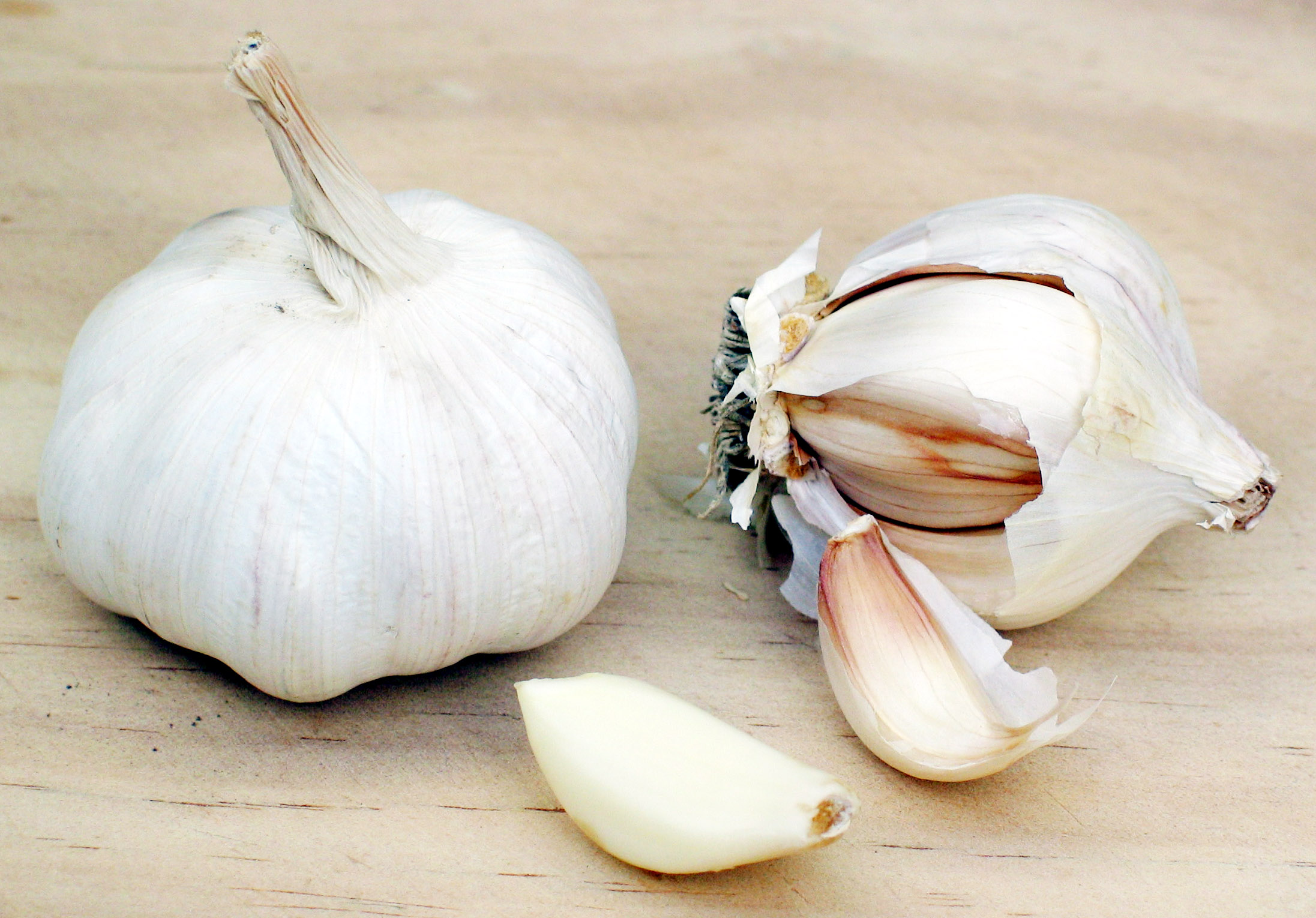 This is one full head of garlic beside another with removed cloves (one clove of garlic has been peeled)